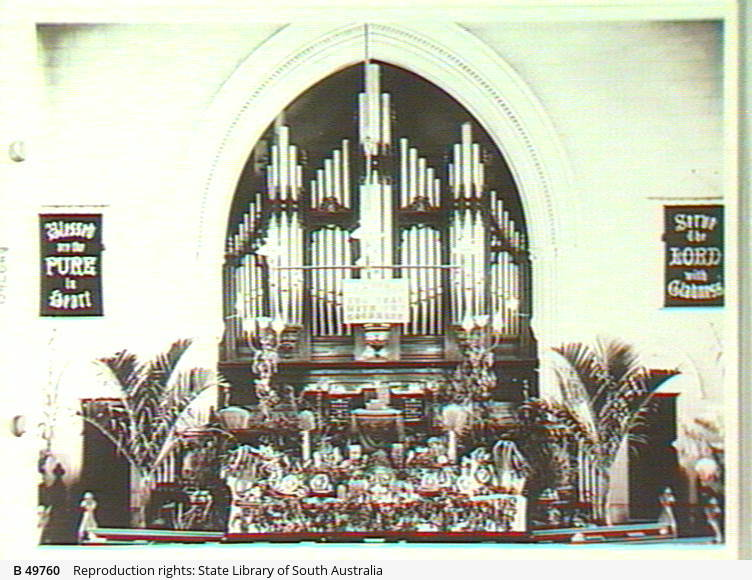 Clayton Congregation Church with choir organ and thanksgiving festival, 1903